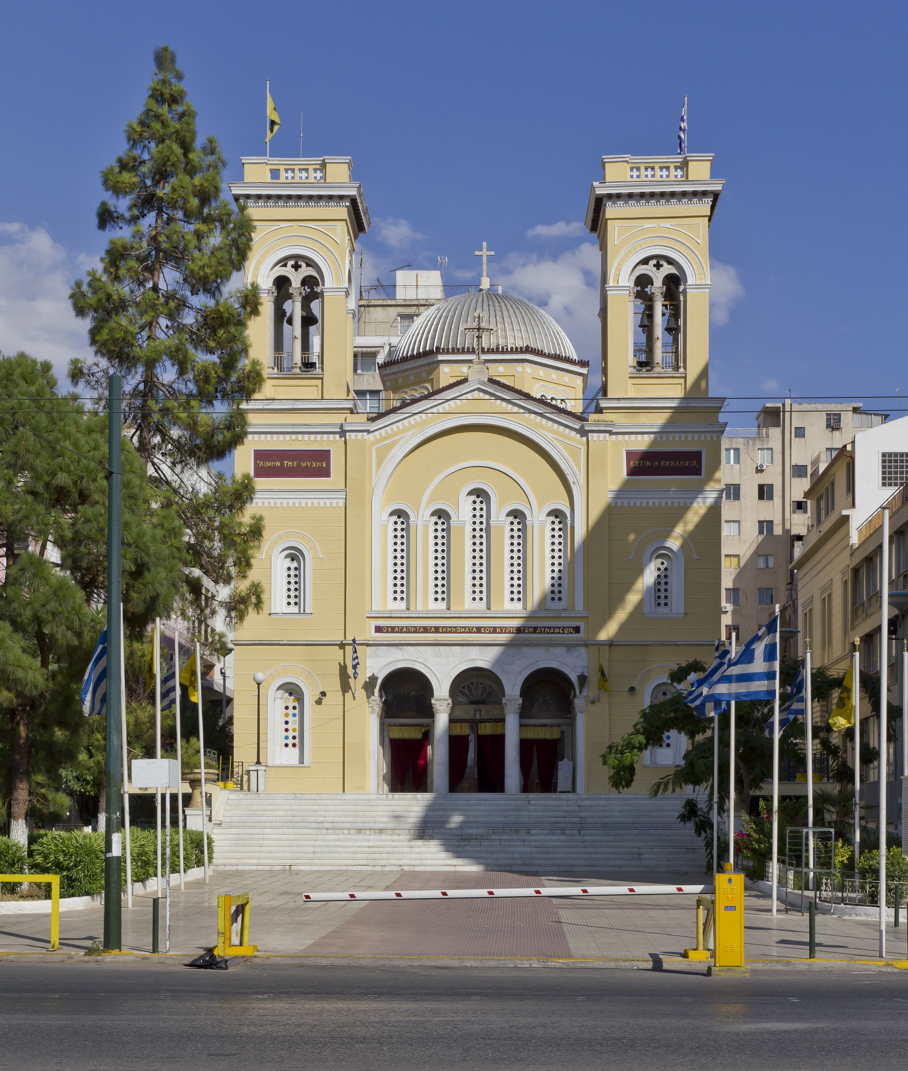 Church of St. Spyridon in Piraeus (Attica, Greece)